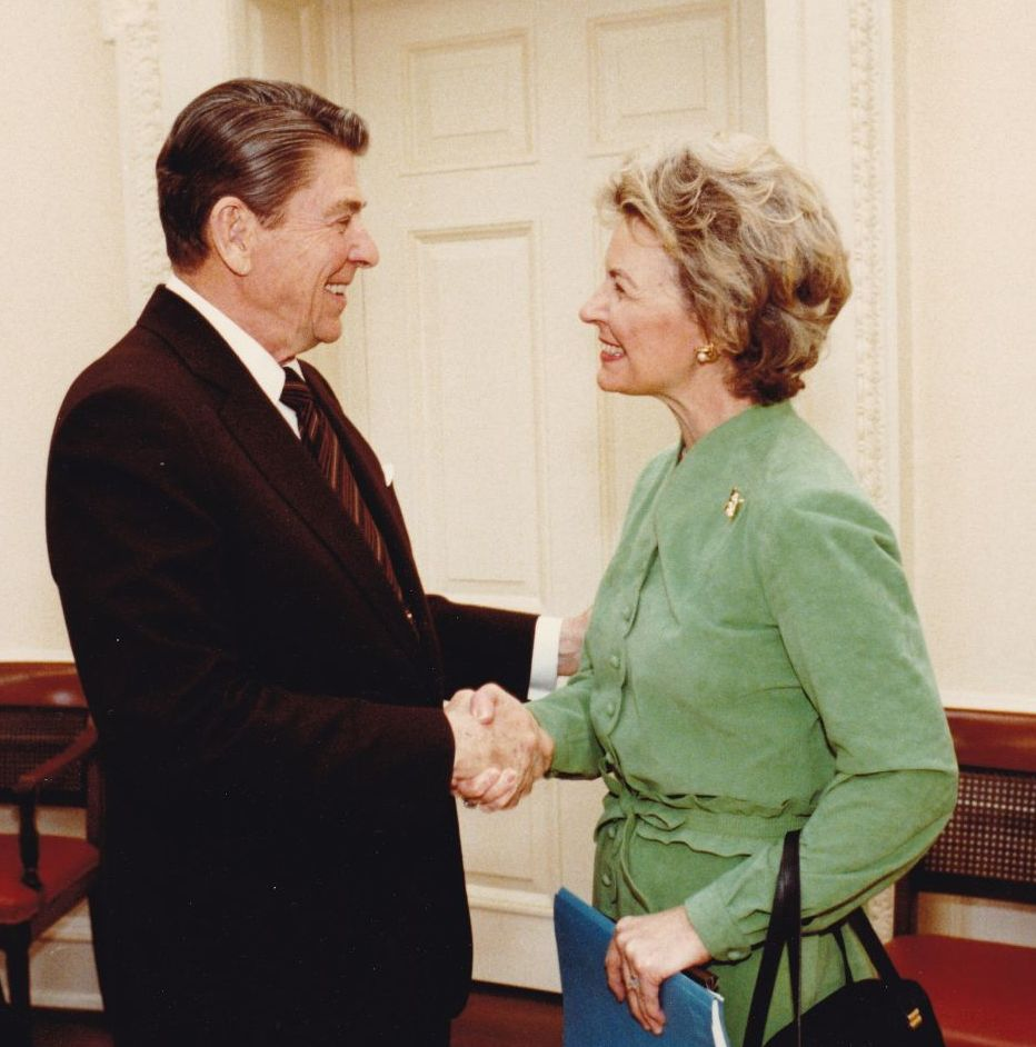 Conservative activist Phyllis Schlafly and President Ronald Reagan White House photo, public domain